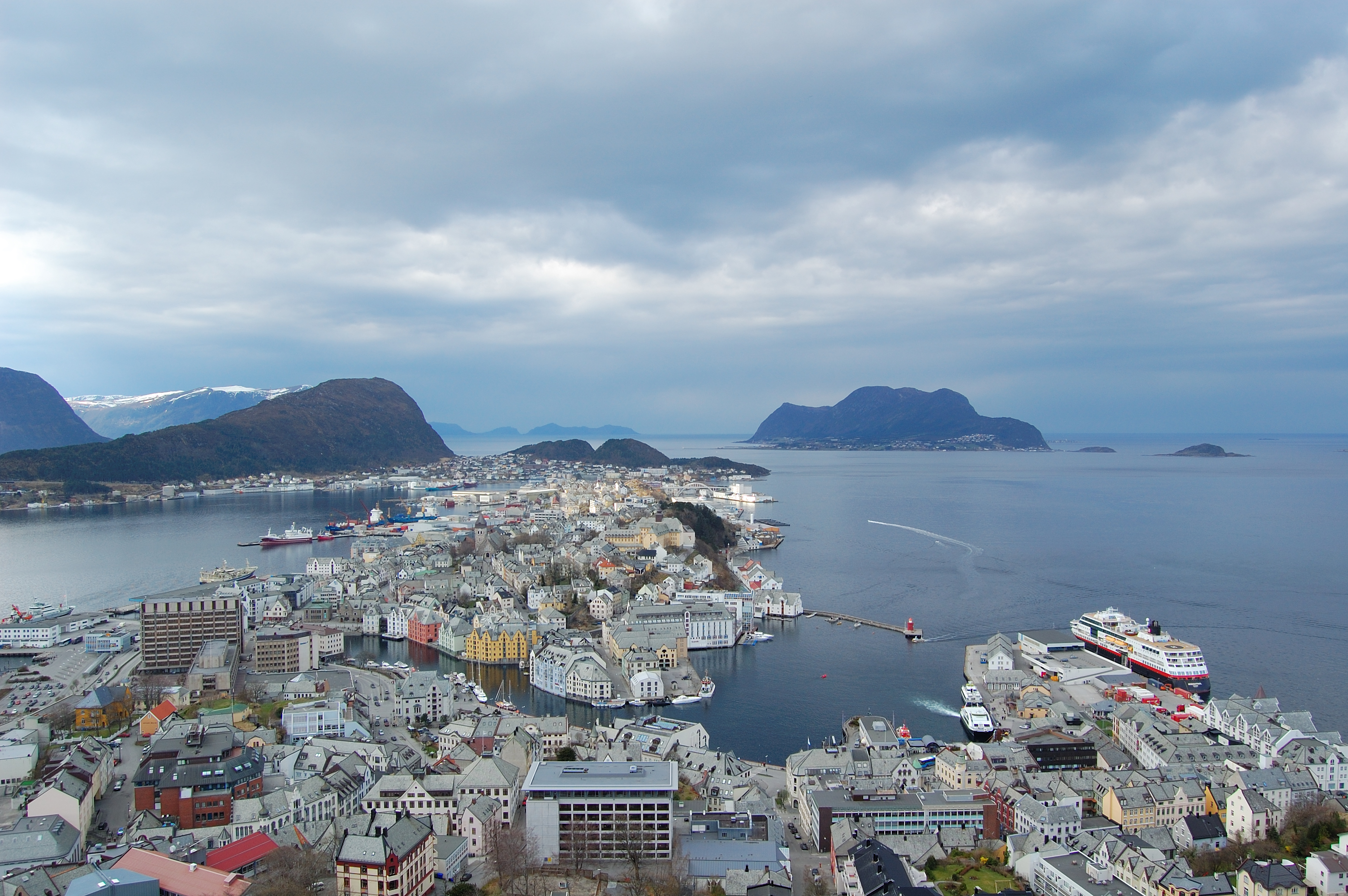 A view of the city of Ålesund from the Aksla hill.